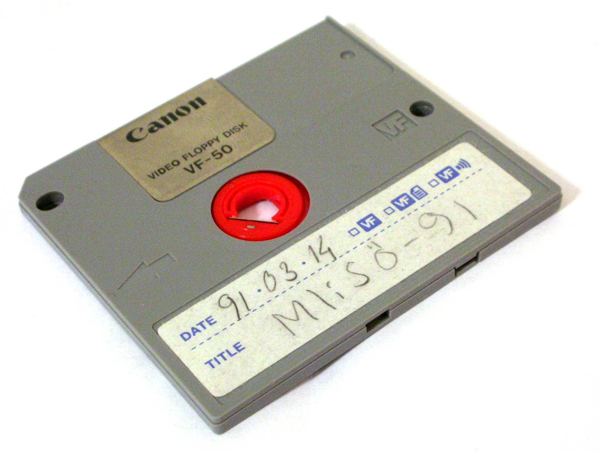 Video Floppy Disk from Canon. There are two more images of this object